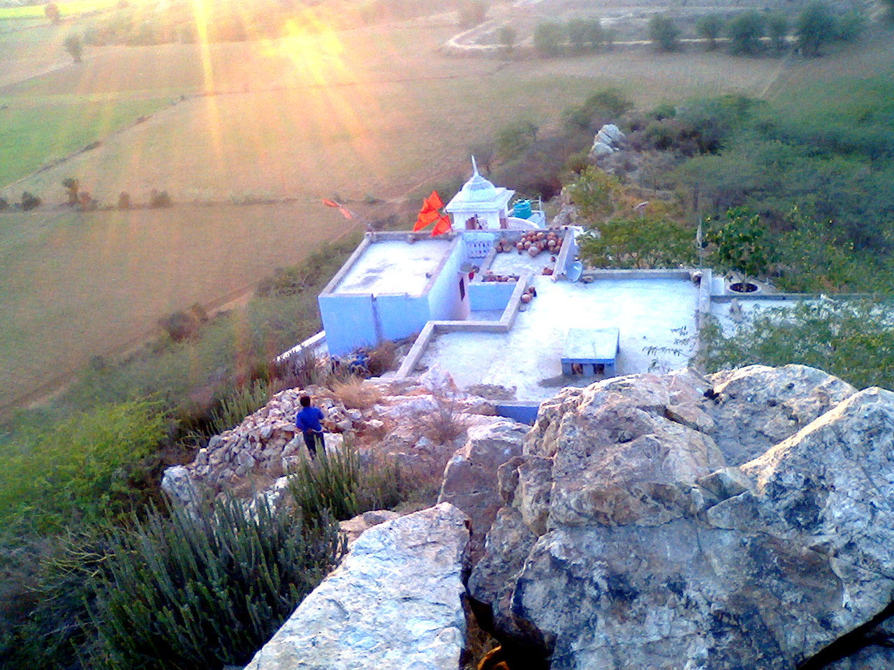 badalnath ji maharaj